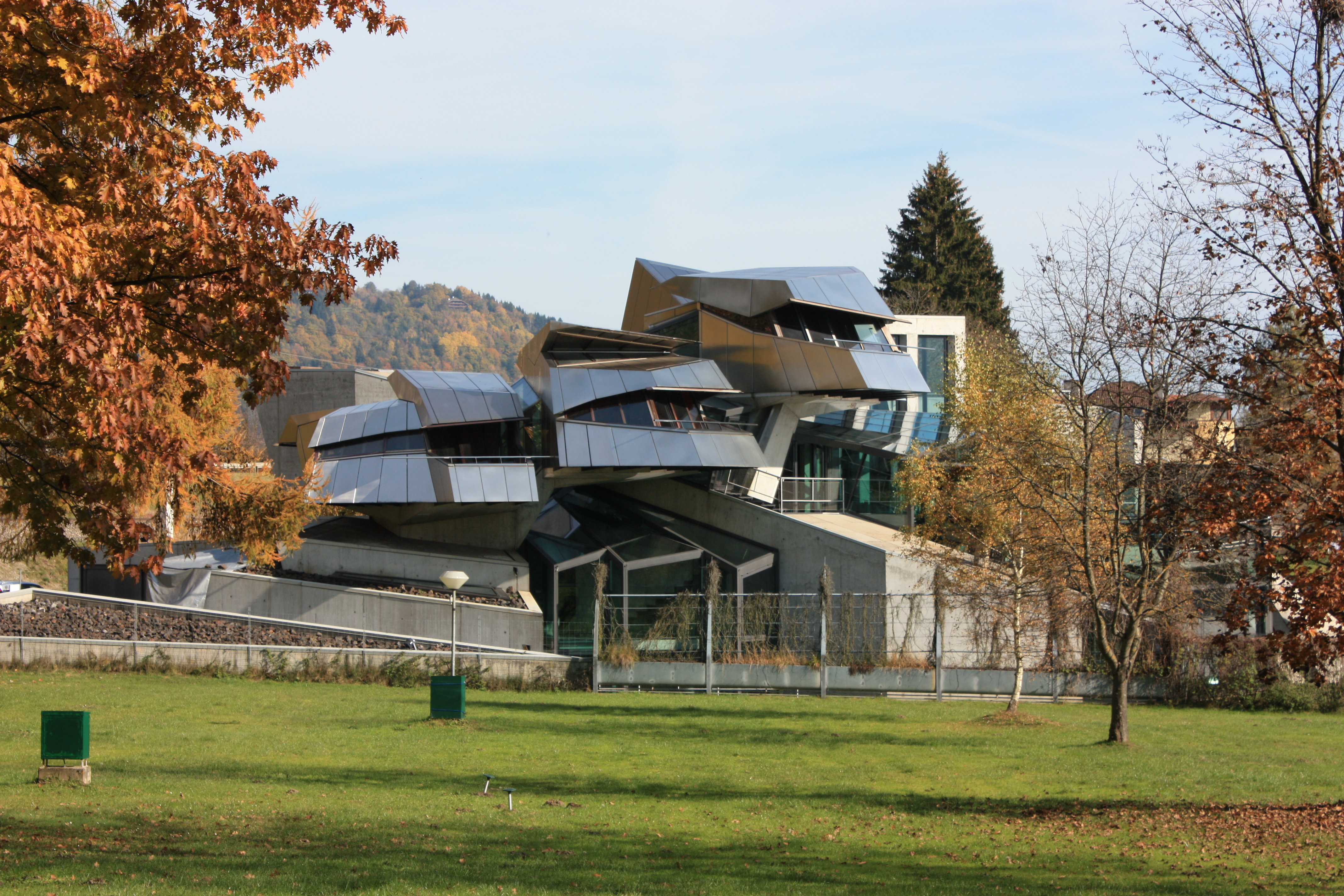 Steinhaus Locality: Steindorf Community:Steindorf am Ossiacher See